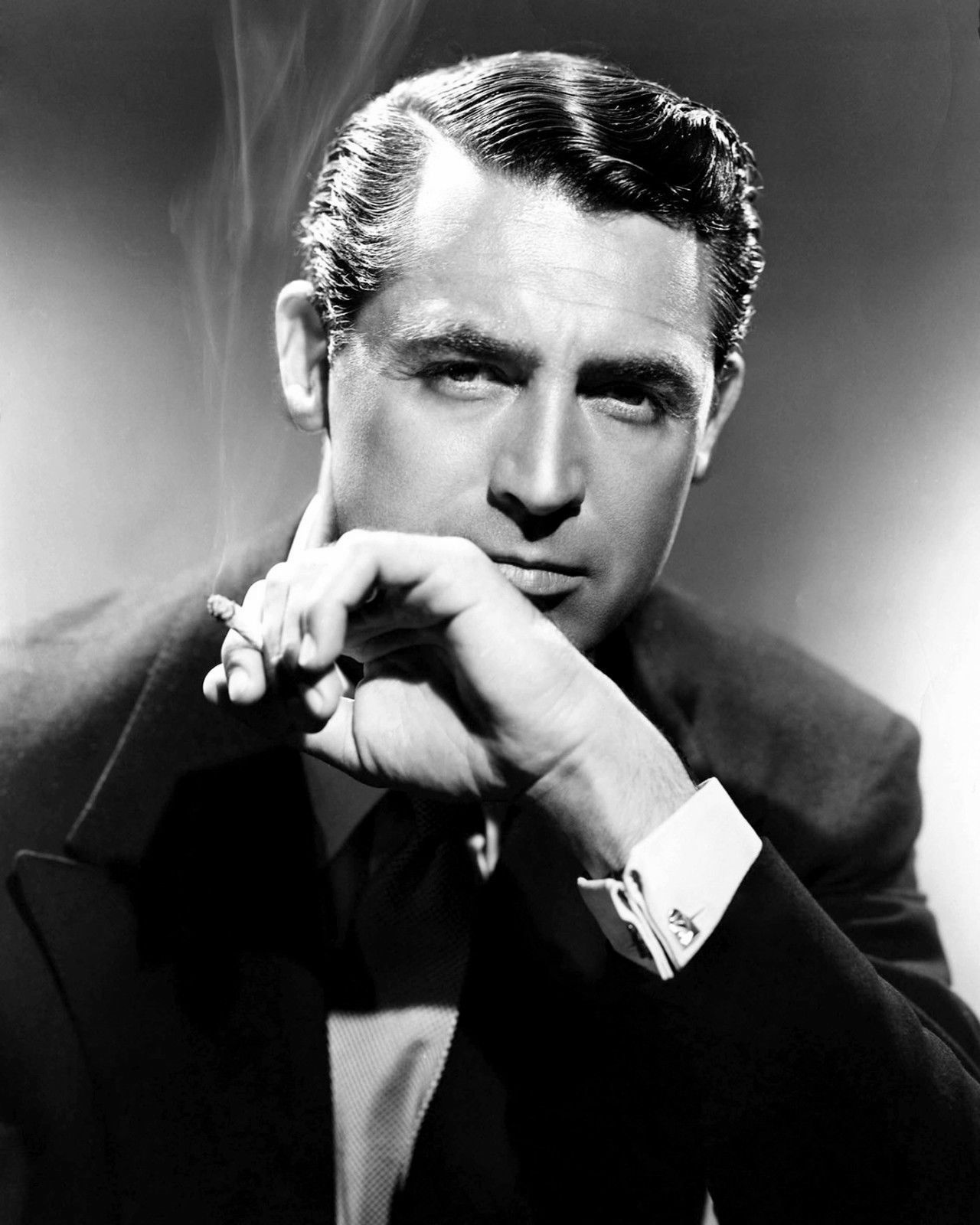 Publicity Photo of actor Cary Grant, 1940s